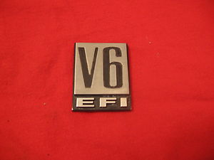 This badge was installed on Chrysler Corporation products equipped with a V-6 (most commonly the Mitsubishi 3.0 or Chrysler 3.3) in the late 80's and early 90's. It was most frequently seen on the Caravan/Voyager/Town and Country minivan family, and also on upmarket Chrysler Corporation passenger cars. The badges were typically displayed on both front fenders.